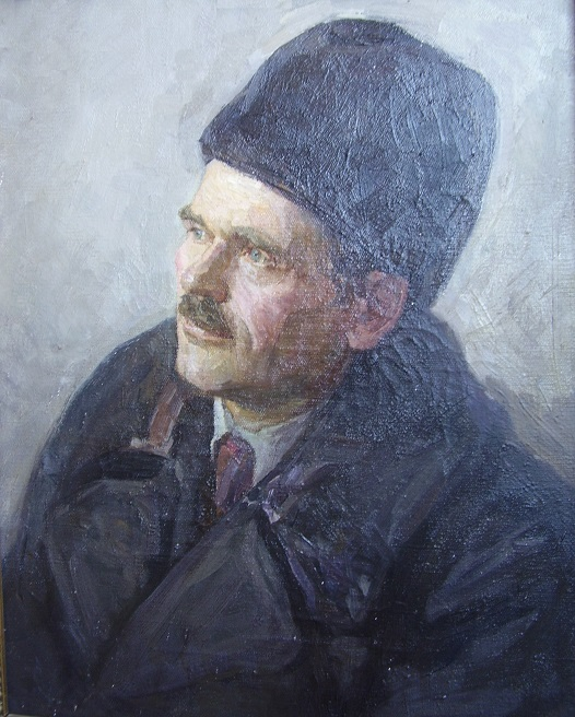 Portrait of D.Polityko. Chaim Livchitz work.